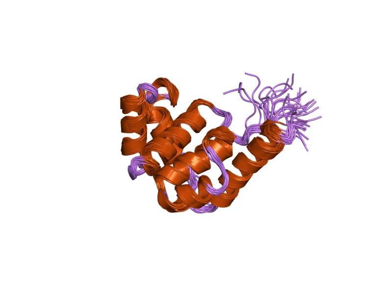 Cartoon representation of the molecular structure of protein registered with 1jwe code.